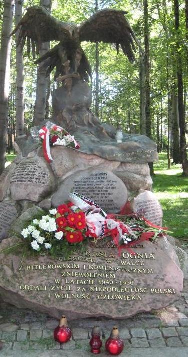 Photo I took of a public monument in Zakopane, Poland